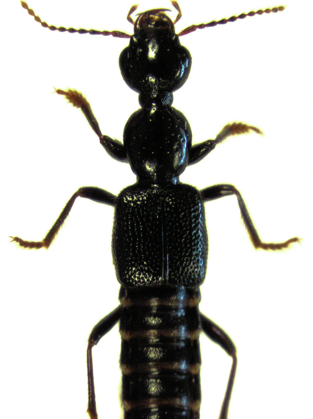 adult Phanophilus comptus (length about 11 mm)